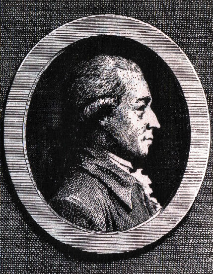 Portrait of Johann Karl Wezel (1747-1819)